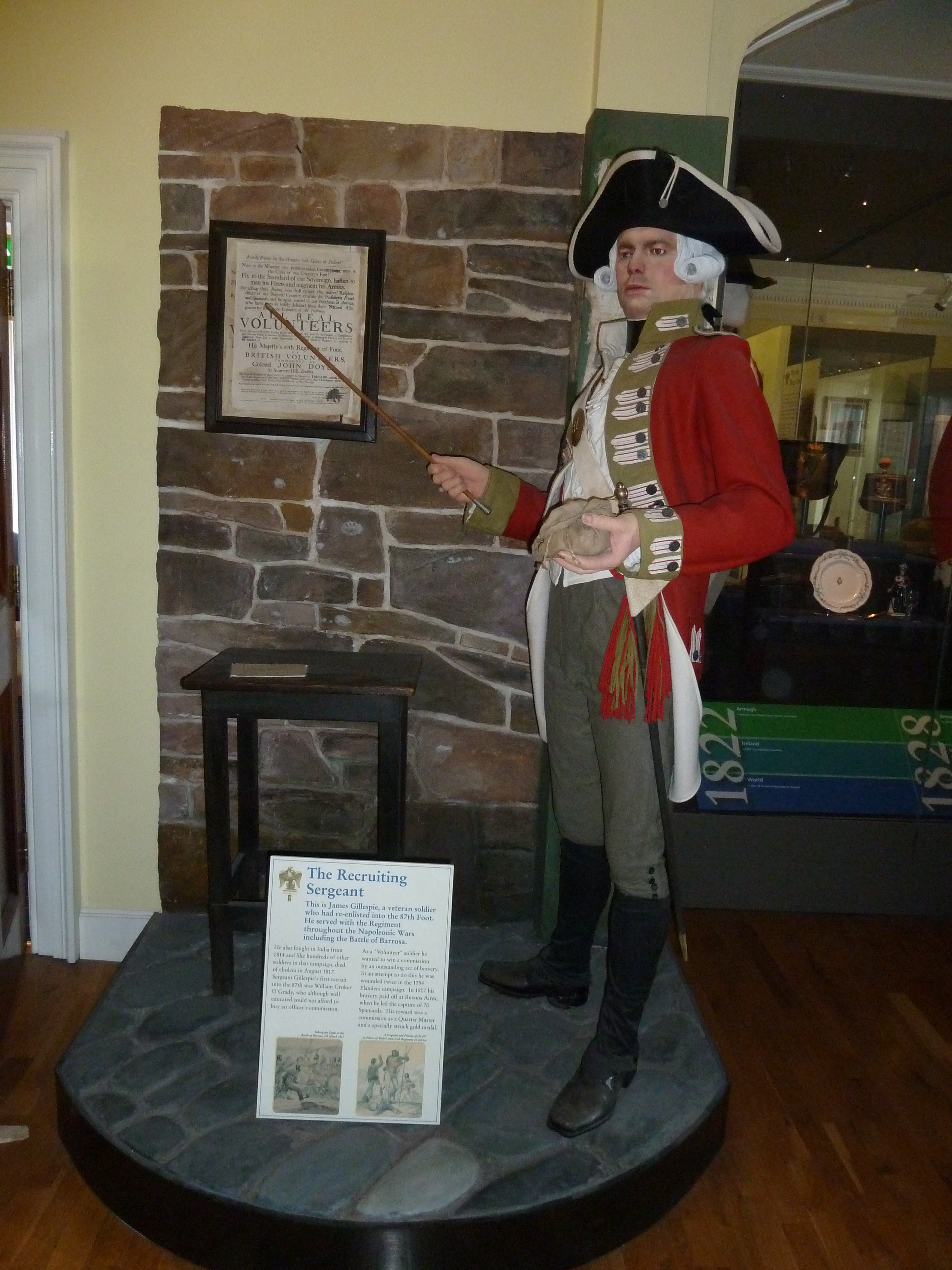 Royal Irish Fusiliers Regimental Museum, Armagh, Co. Armagh, Ireland. Recruiting sergeant. Napoleonic Wars.